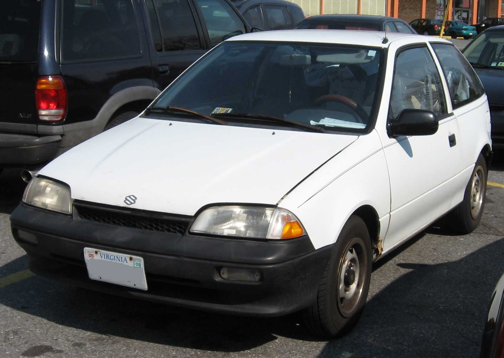 1989-1991 Suzuki Swift photographed in Camp Springs, Maryland, USA.